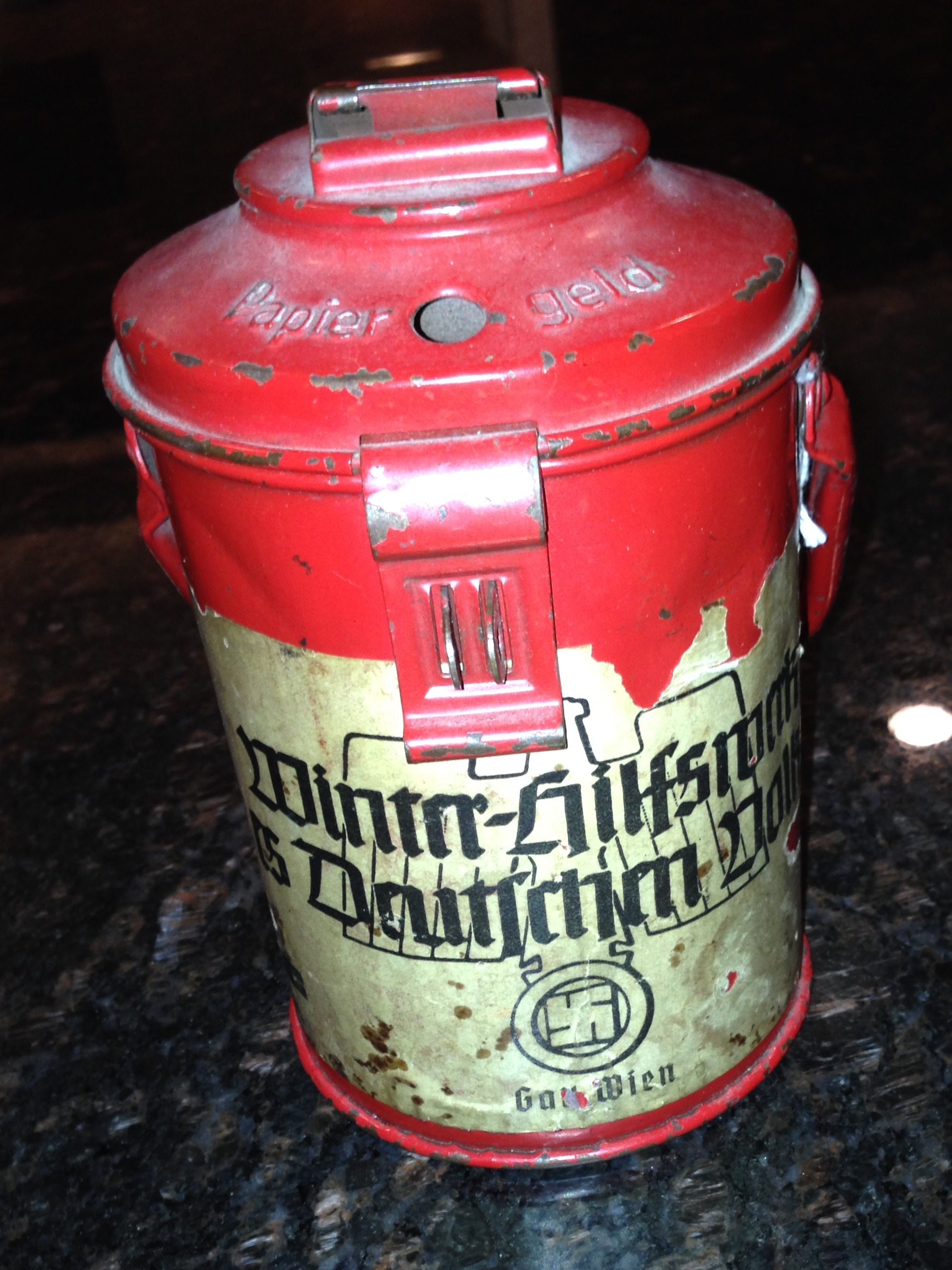 Nazi collection tin used for Winterhilfswerk.